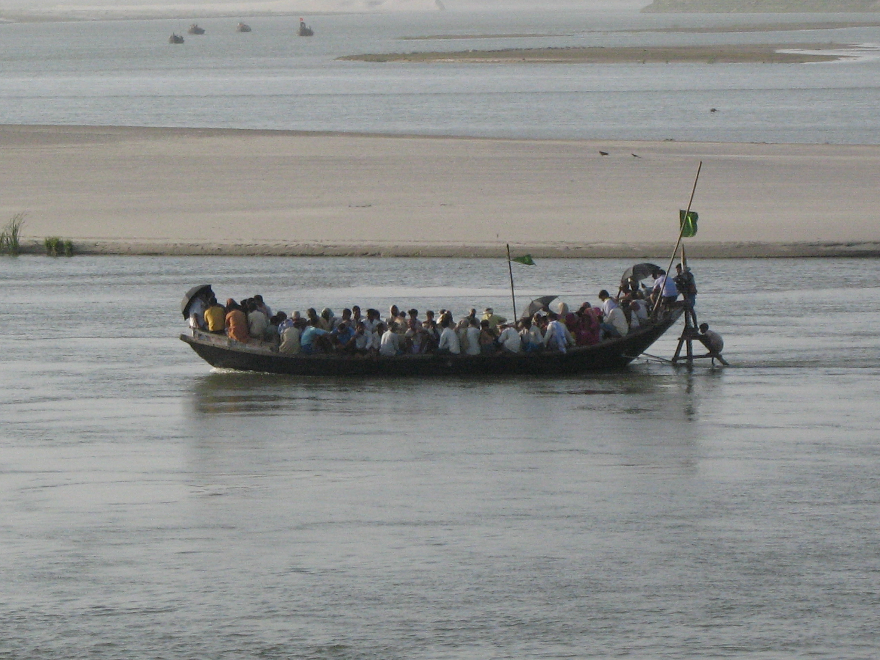 A country boat on the river Ganges in India